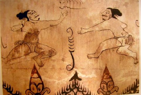 2 mustache Kokuryeo Korean Subak, left man is doing a frontal slap